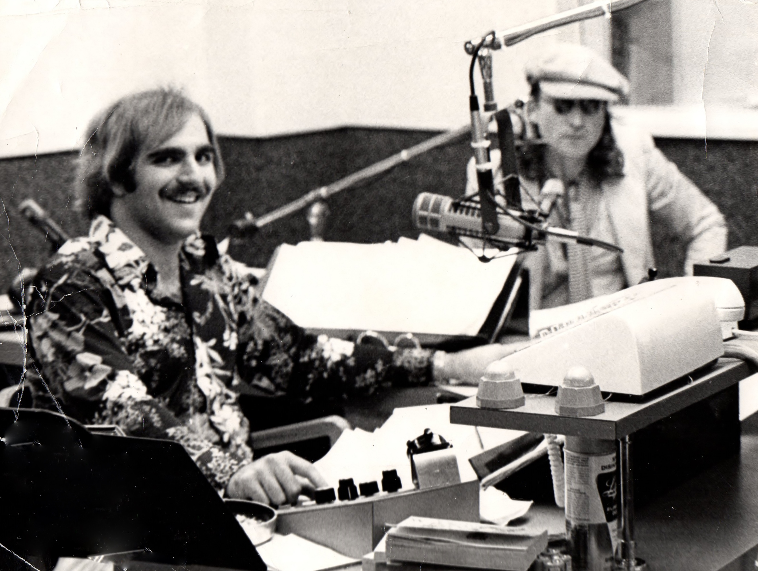 Banana Joe Montione on air at WFIL "Helping Hand Marathon", May, 1975. It wasone of Lennon's last public appearances.